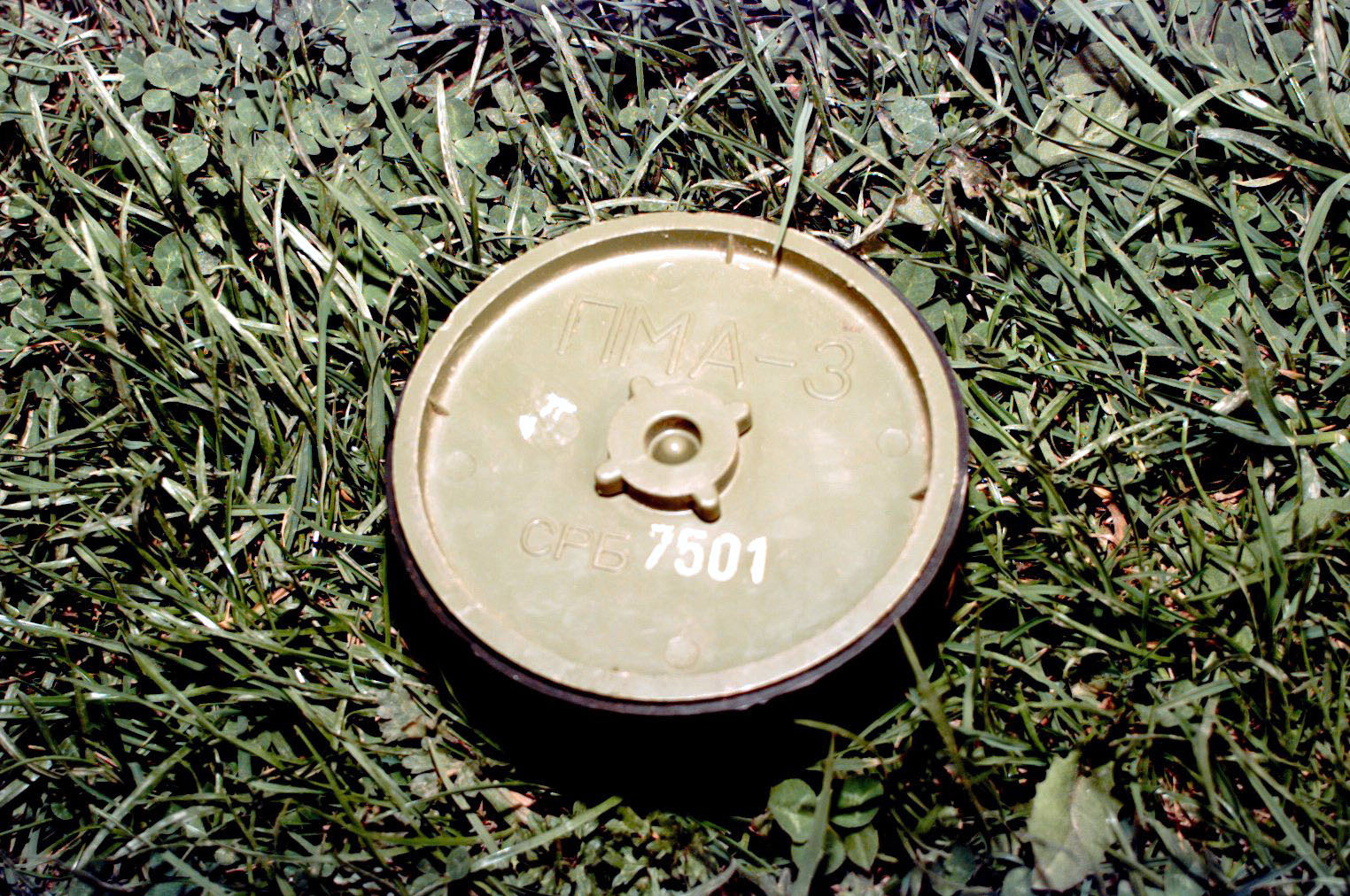 PMA-3 Yugoslavian anti-personnel blast mine (shown upside down).